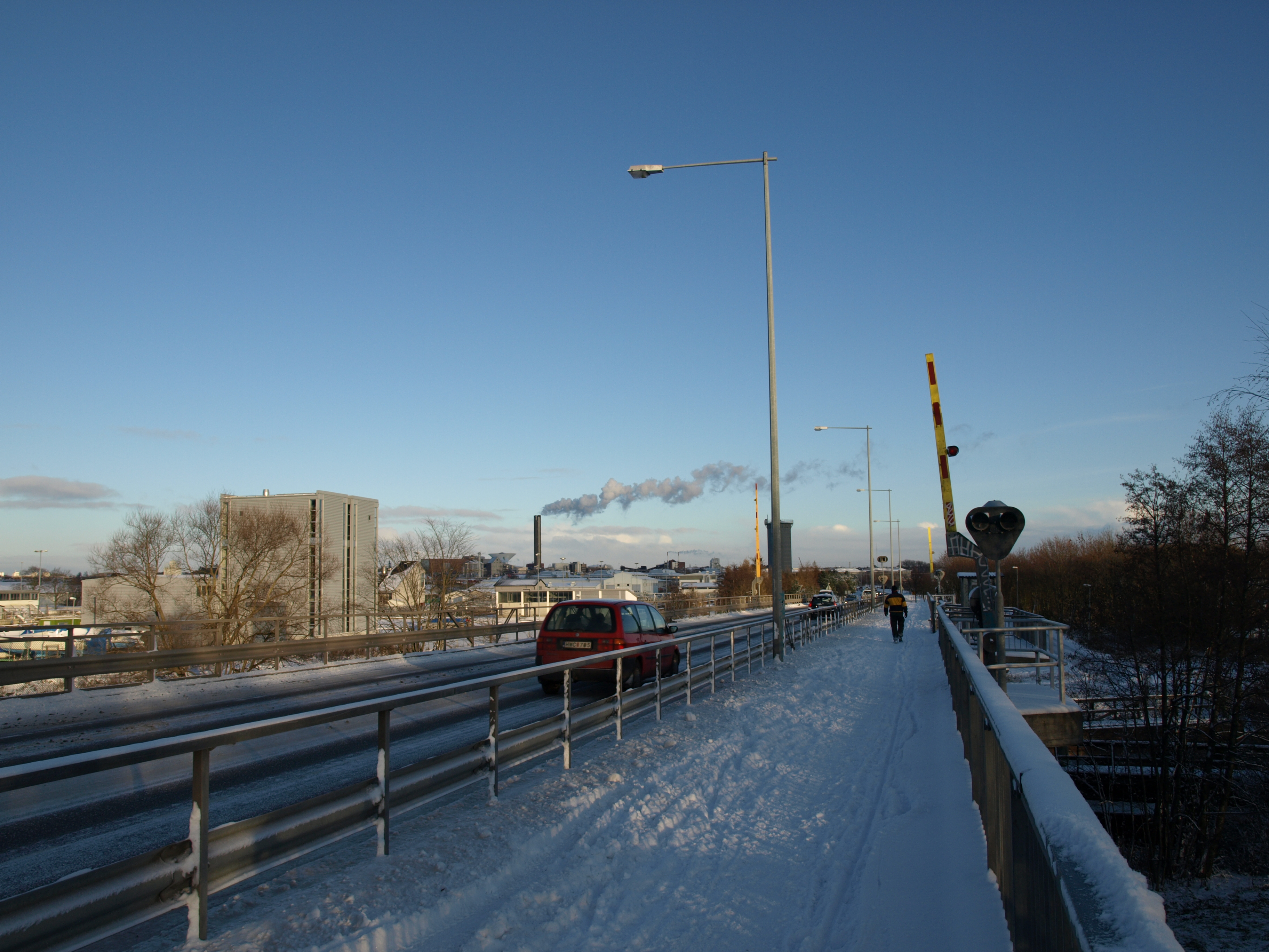 On top of the "Kungsängsbron" bridge over the river Fyrisån, Uppsala, Sweden.